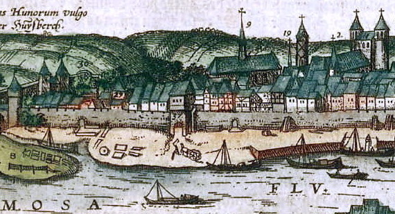 Maastricht, the Netherlands. View of the Onze-Lieve-Vrouwepoort (Gate of Our Lady) around 1570. Detail of city panorama by Simon de Bellomonte, c 1570, published in 1575 in Part 2 of Braun & Hogenberg's atlas of world cities Civitates orbis terrarum.